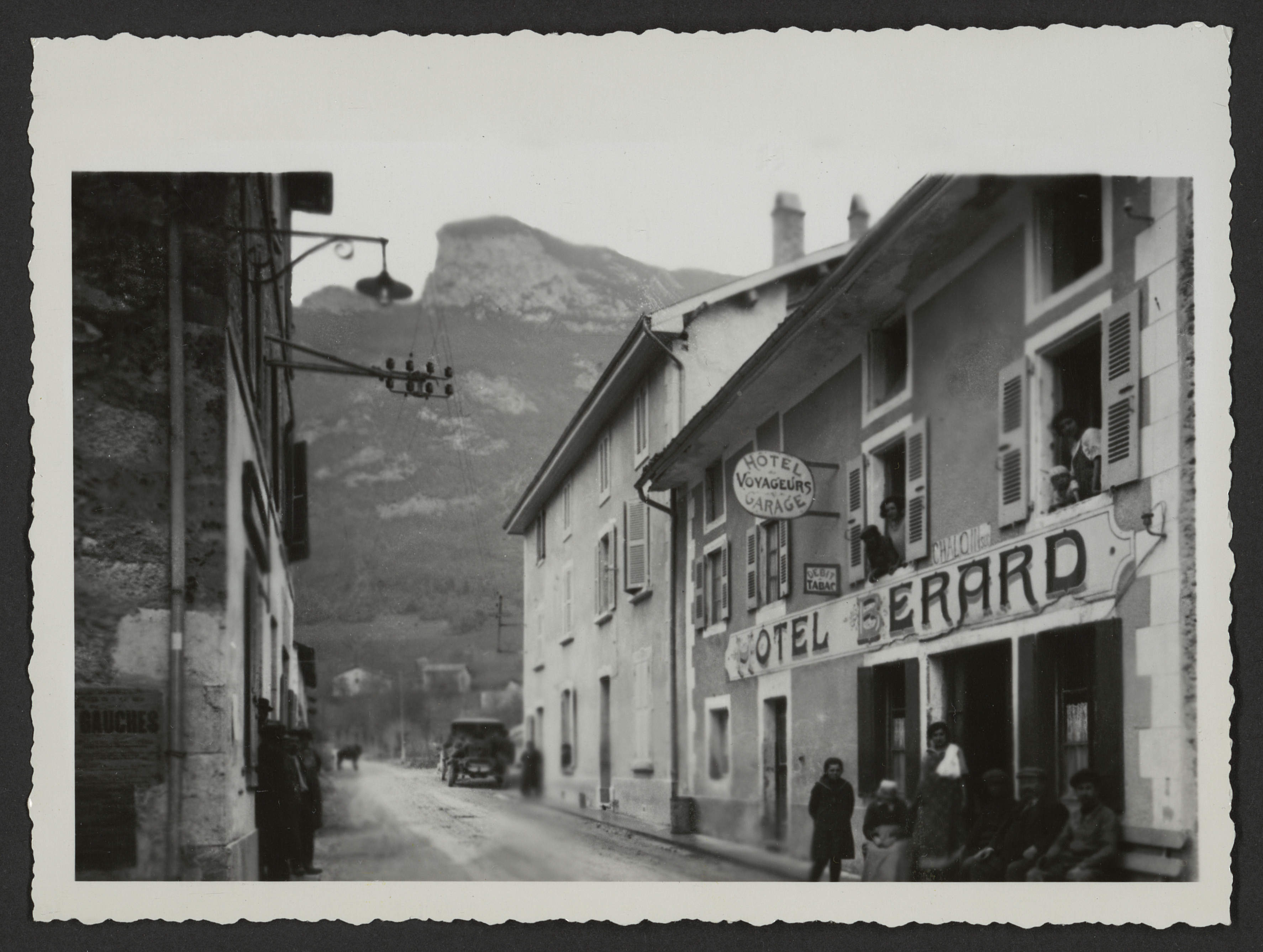 493 - LEFT